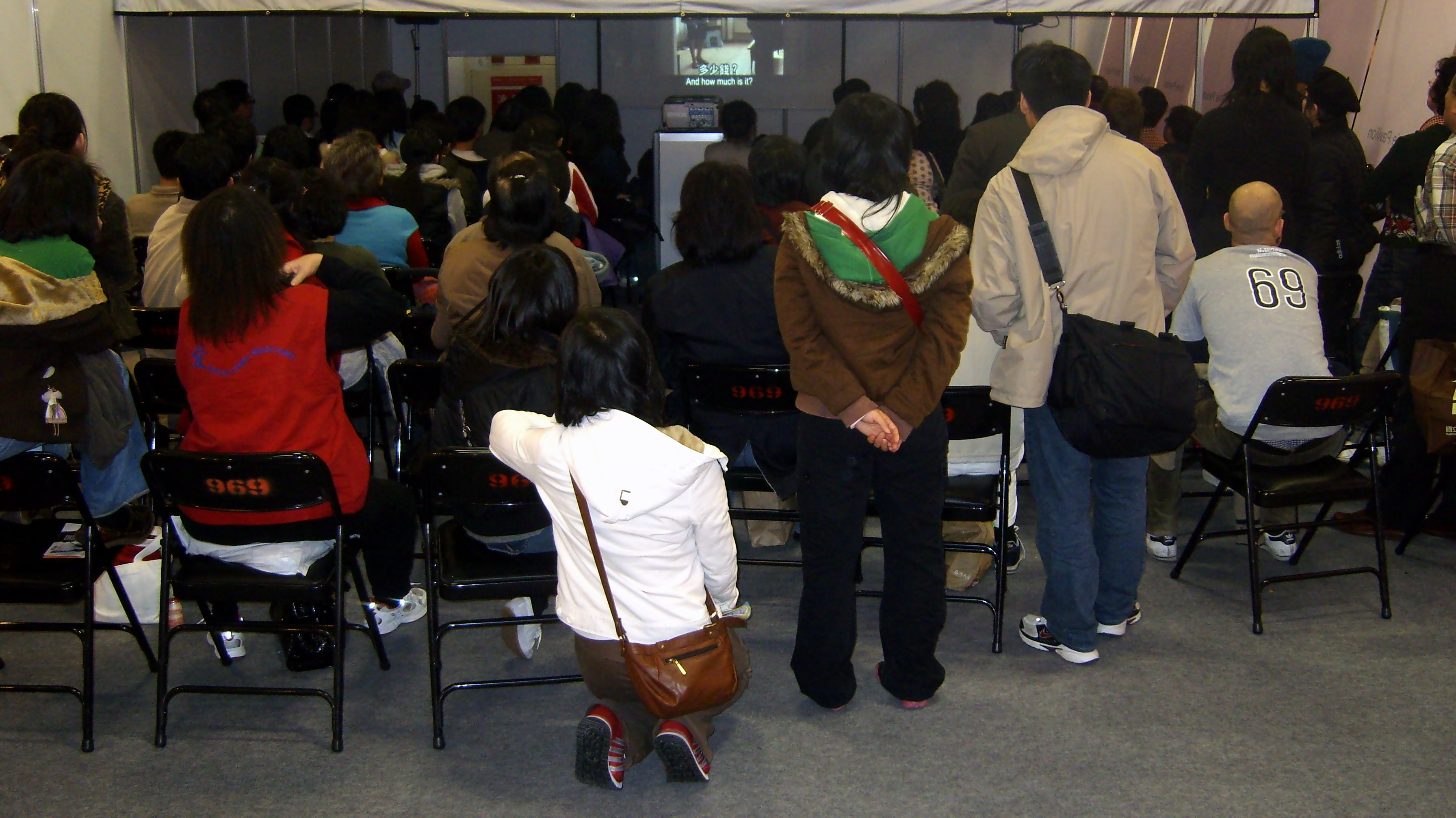 2008 Taipei International Book Exhibition - Hall 1: Movie Pavilion.